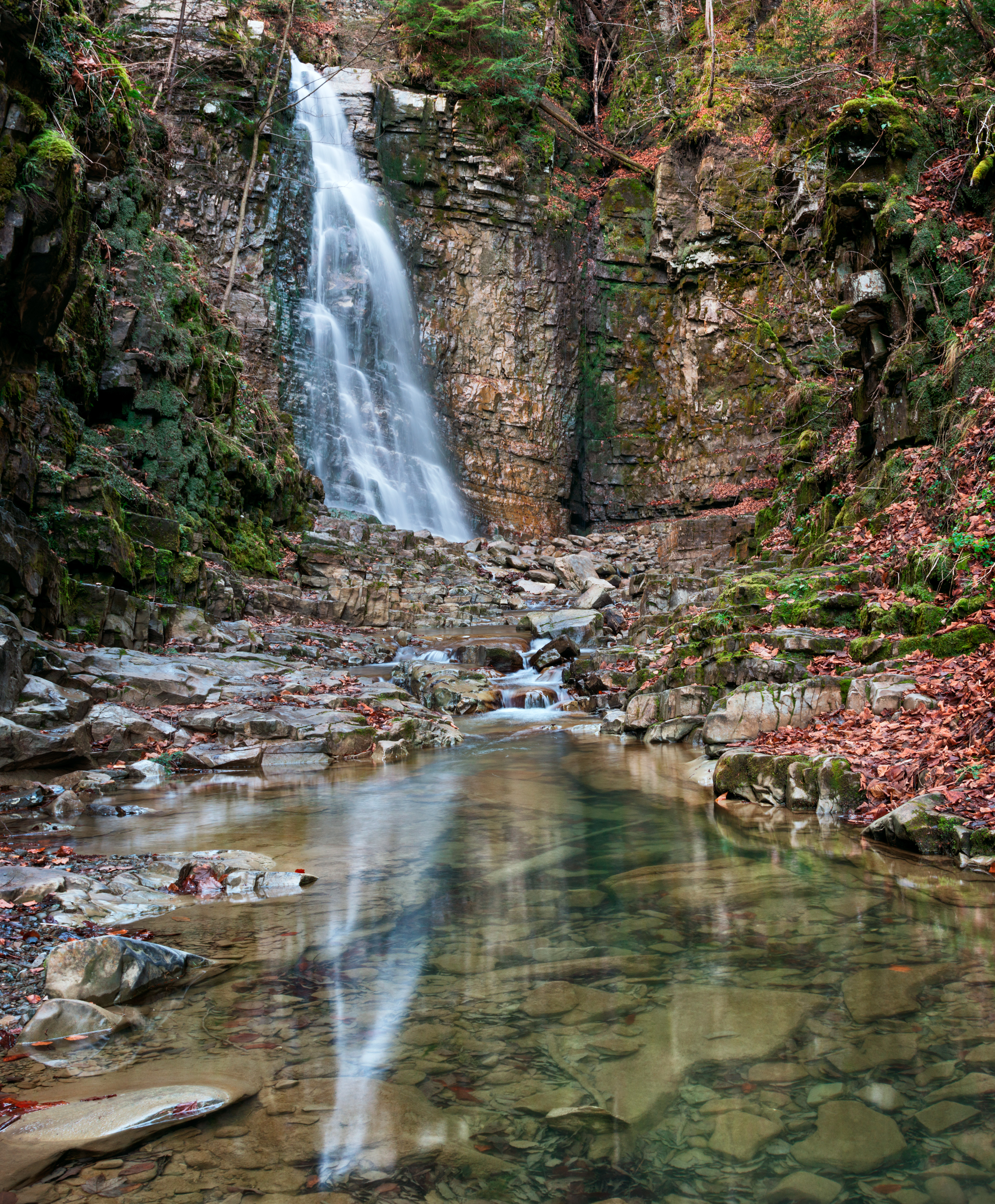 Maniava waterfall is the highest waterfall in the Carpathians and is located in the Gorgany mountain ridge in Ukraine.